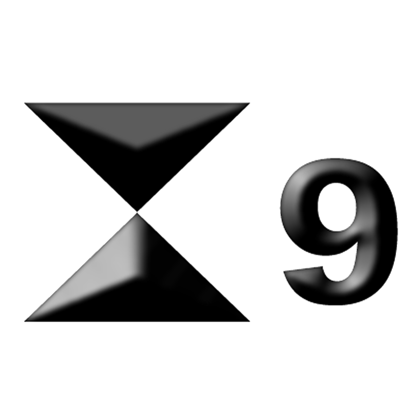 INCREASING GALE OR STORM SIGNAL NO. 9